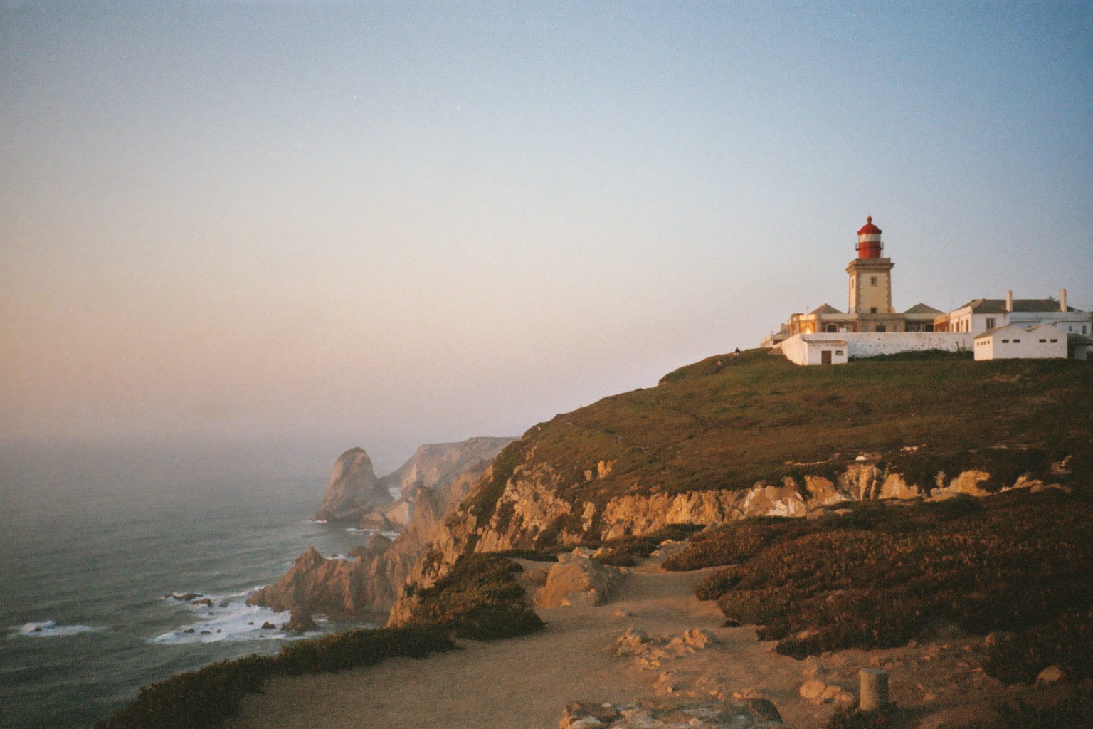 Cabo da Roca, the westernmost point of mainland Europe, Portugal.